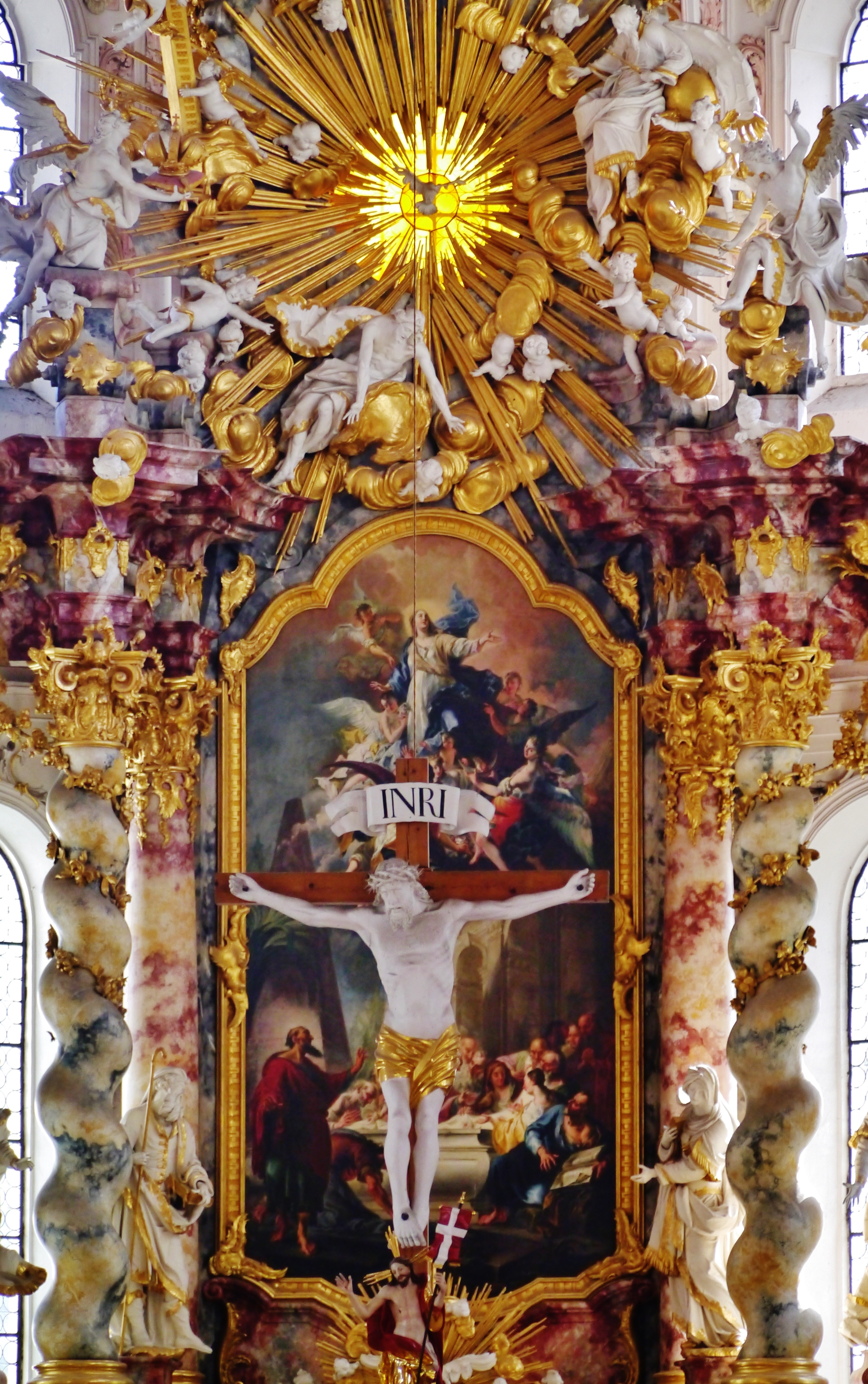 High Altar of the Fürstenfeld Monstery Church of St. Mary Assumption, Fürstenfeldbruck, Bavaria, Germany